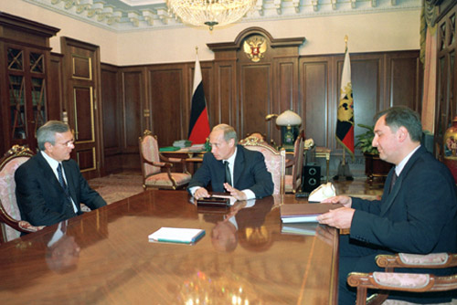 With leader of political union «For Human Rights in a United Latvia» Janis Jurkans and chairman of the State Duma's international affairs committee Dmitry Rogozin.